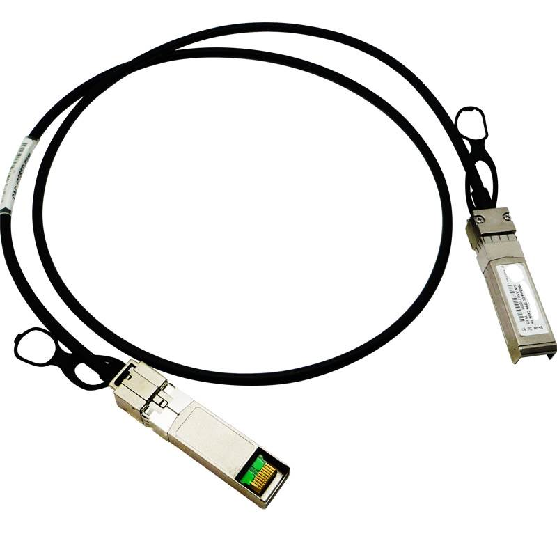 Twinax SPF+ cable example. It connects directly into SPF+ plug and has adapters built-in at each end.